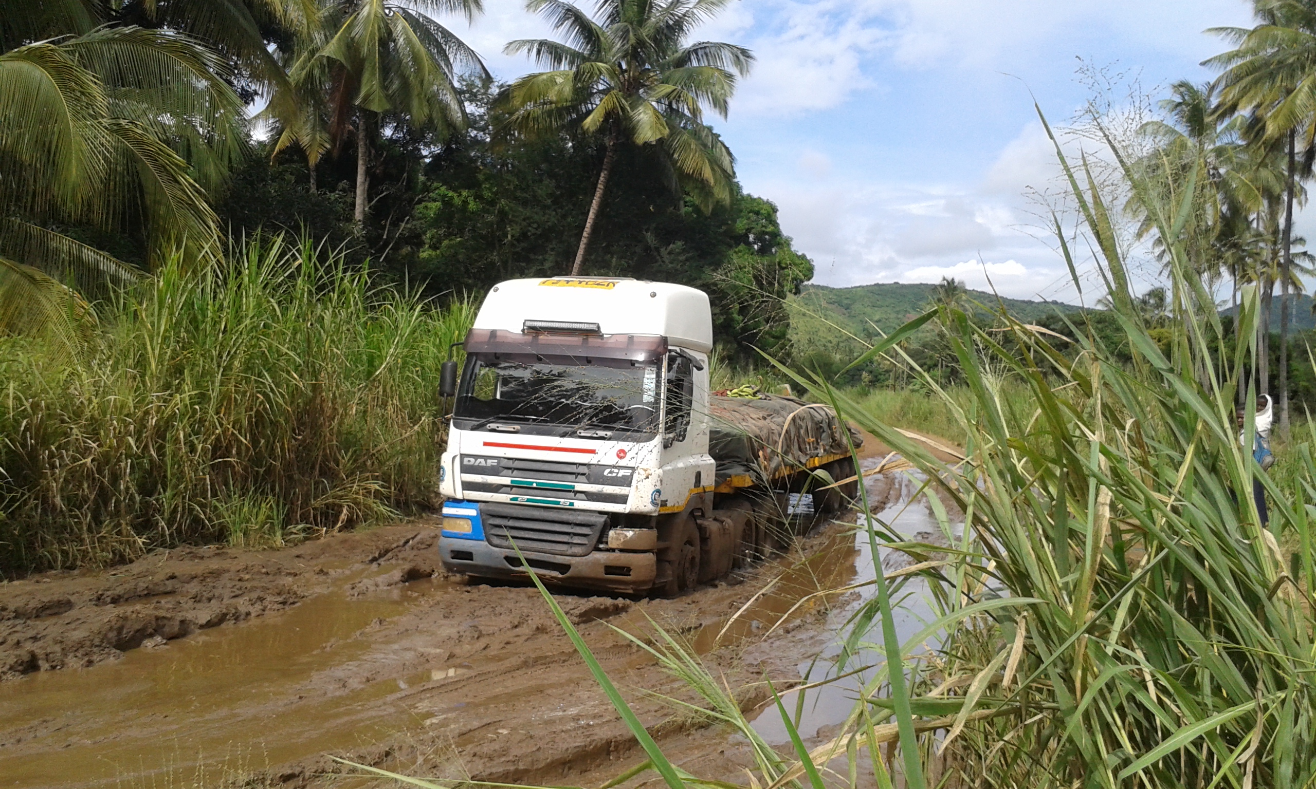 Mud flood on the village road near Morogoro, Tanzania This is an image with the theme "Africa on the Move or Transport" from: Tanzania